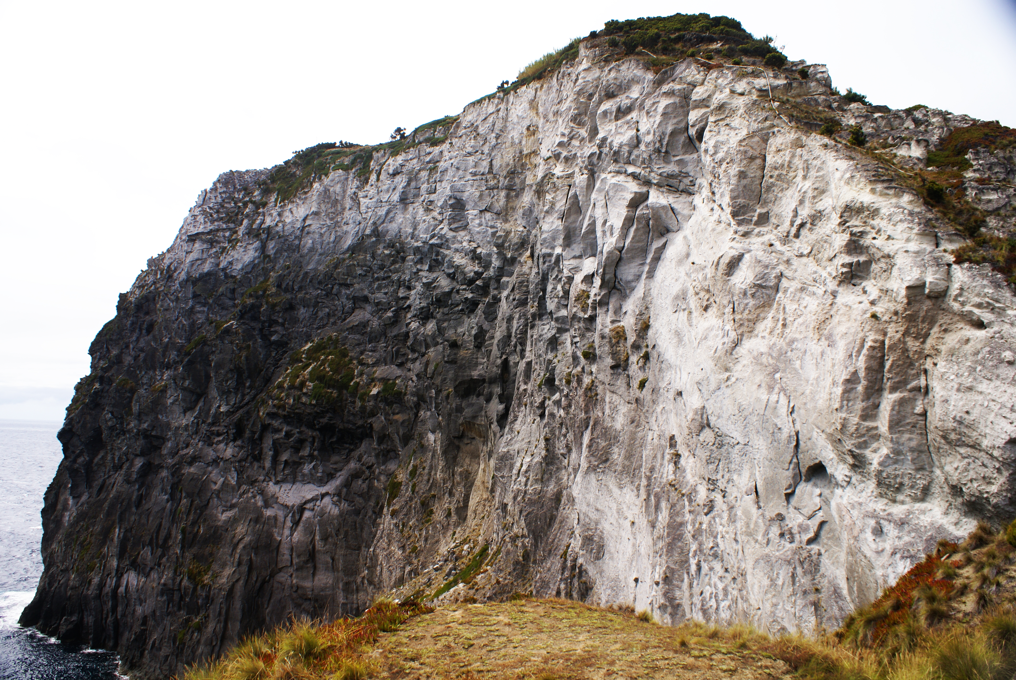 Morro de Castelo Branco, aspectos 2, Castelo Branco, concelho da Horta, ilha do Faial, Açores, Portugal